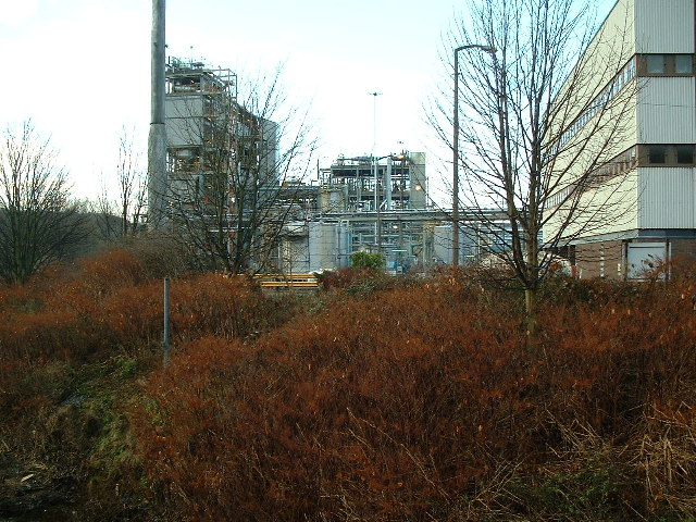 Syngenta Chemical Plant. The site manufactures important products such as the herbicide 'Gramoxone' and the insecticide 'Karate'.